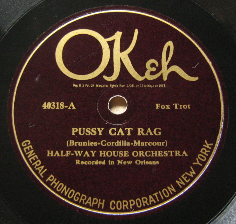 Label of OKeh record "Pussy Cat Rag" recorded by the Half-Way House Orchestra in New Orleans in January 1925.